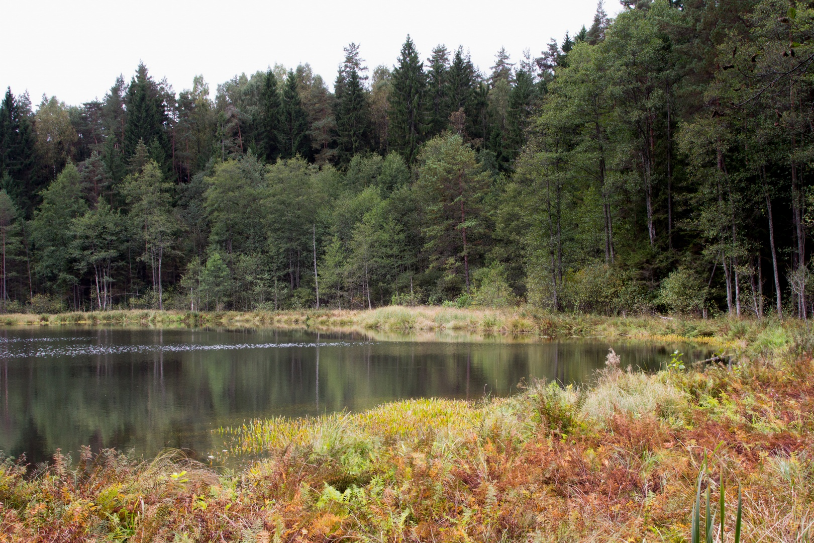 Lestoniskis Lake (Siauliai district, Lithuania)